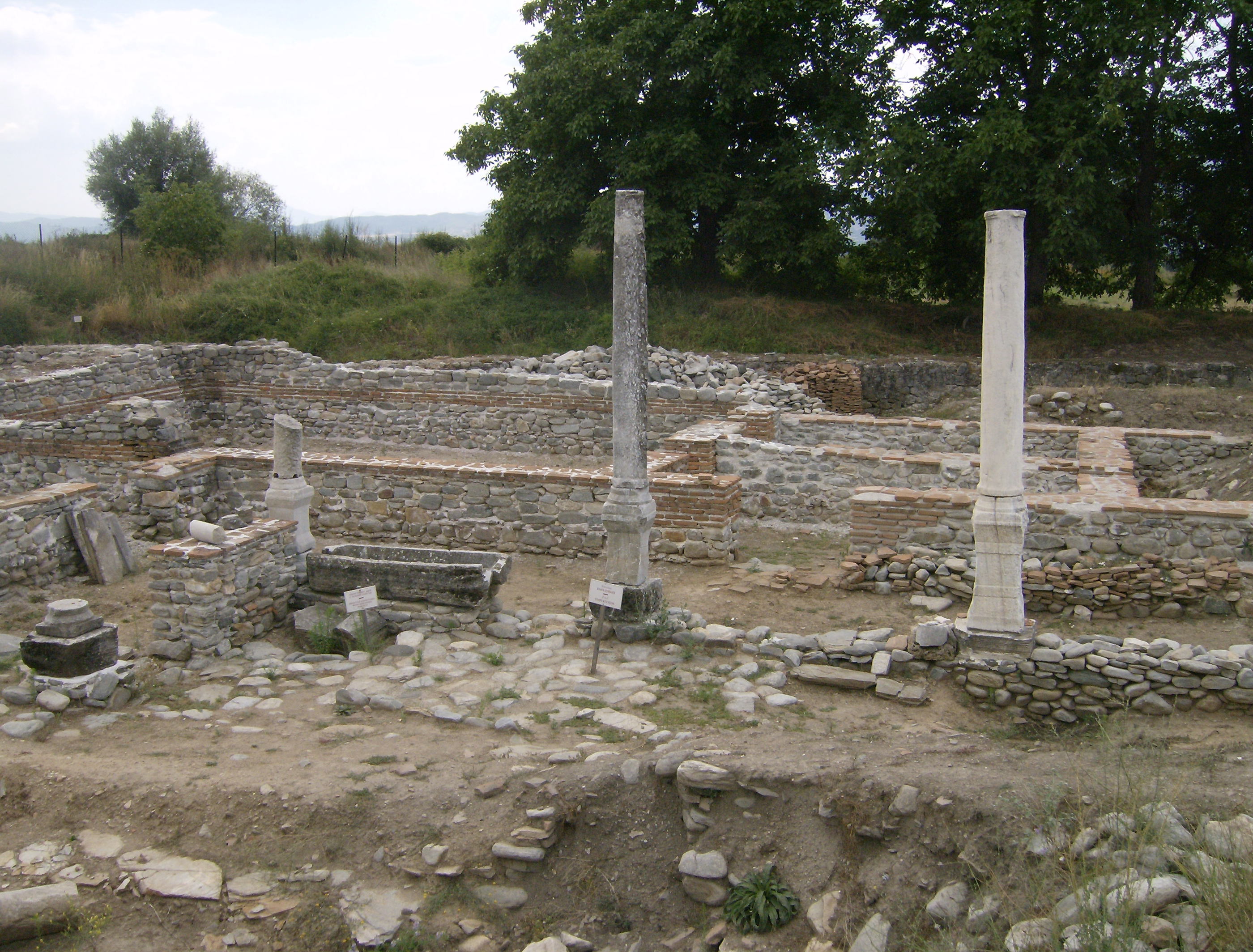 Nicopolis ad Nestum